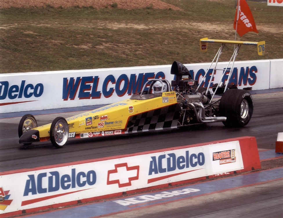 Dragster